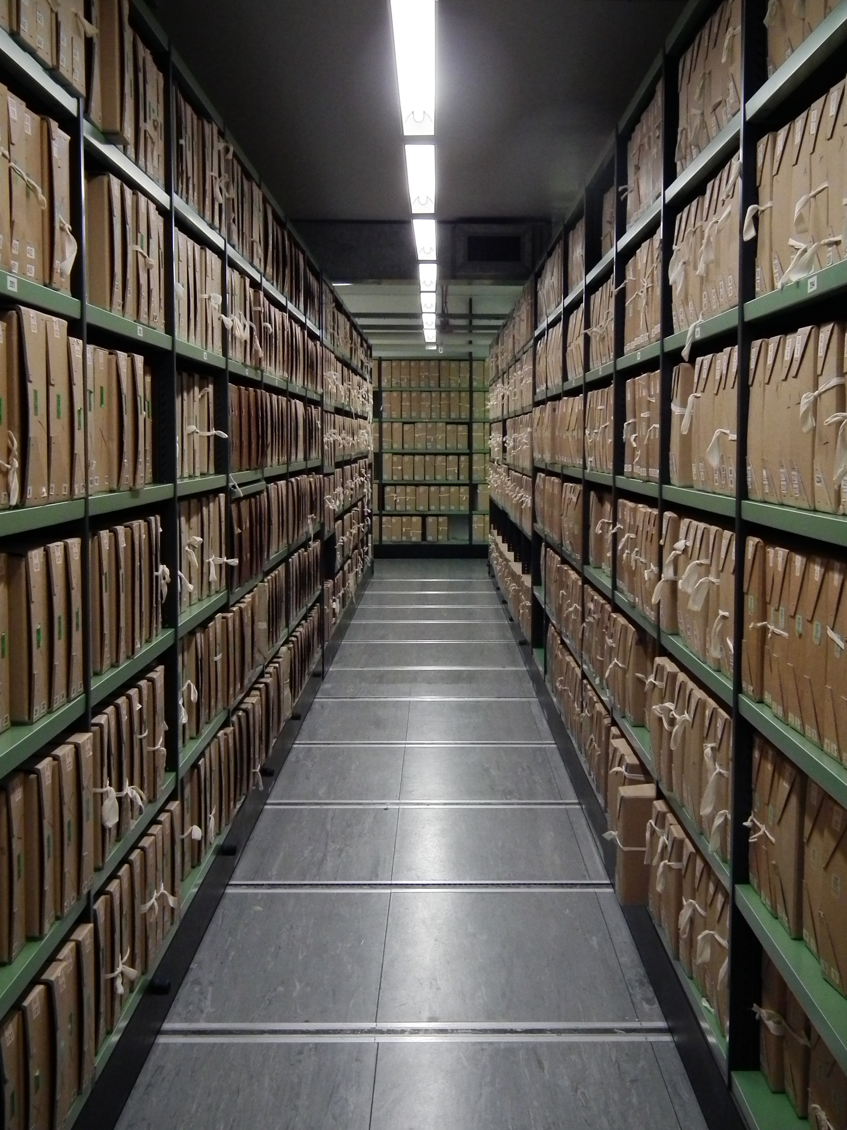 Files held at The National Archives (United Kingdom)